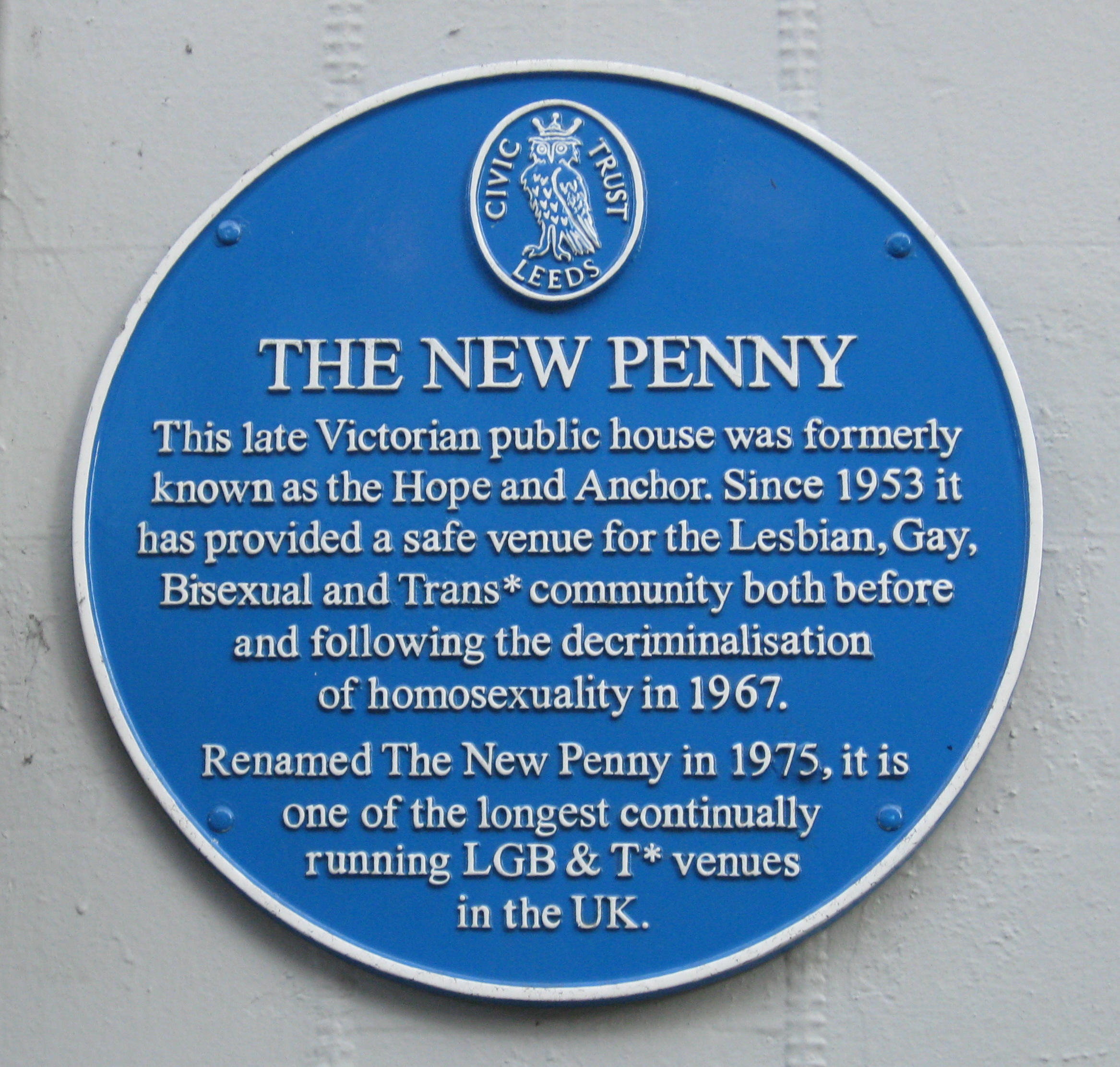 Leeds Civic Trust blue plaque on the New Penny pub, 57 Call Lane, Leeds LS1 7BT.